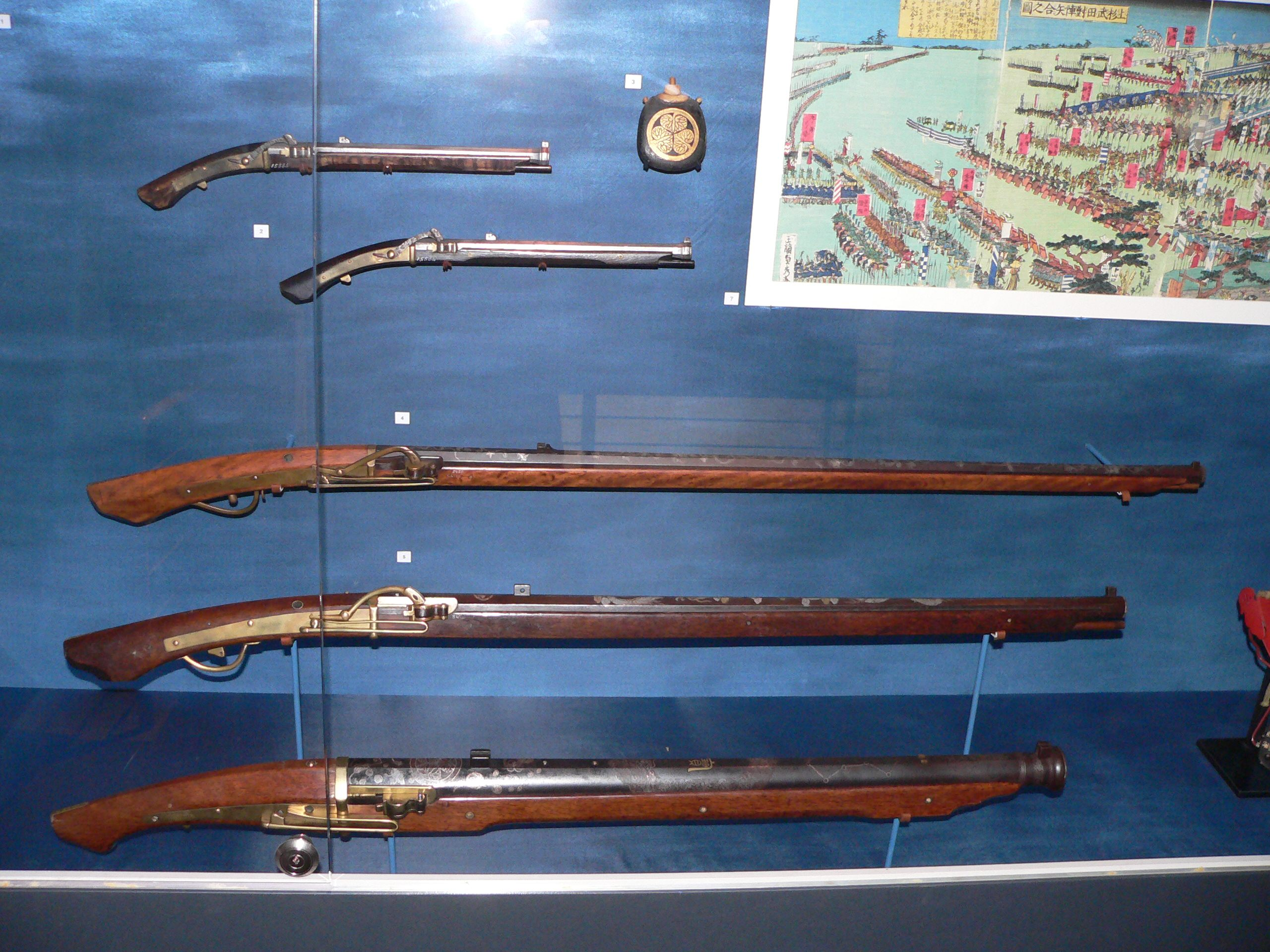 teppō (Japanese-built arquebuse) of the Edo era. Above center is a Japanese 'powder horn' with the emblem of Tokugawa clan.